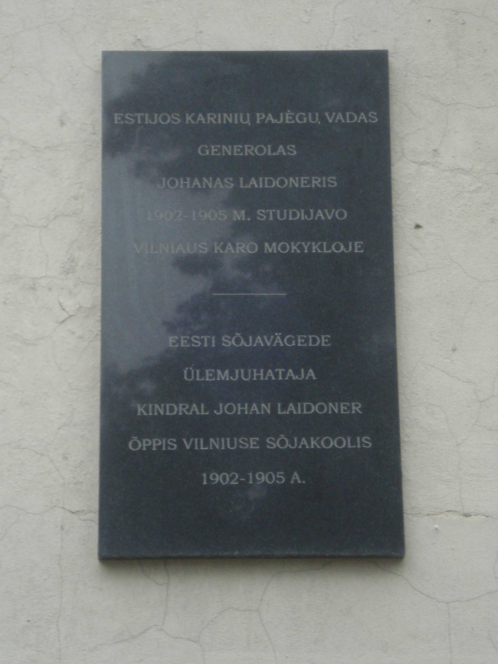 Memorial plaque at the wall of former military school in Vilnius where studied Johan Laidoner in 1902-1905 (now Faculty of Natural Sciences of Vilnius University, Čiurlionio g. 18), text in Estonian and Lithuanian languages tablet on